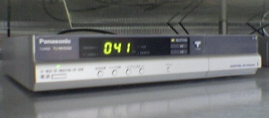 Panasonic ISDB-T digital television decoder